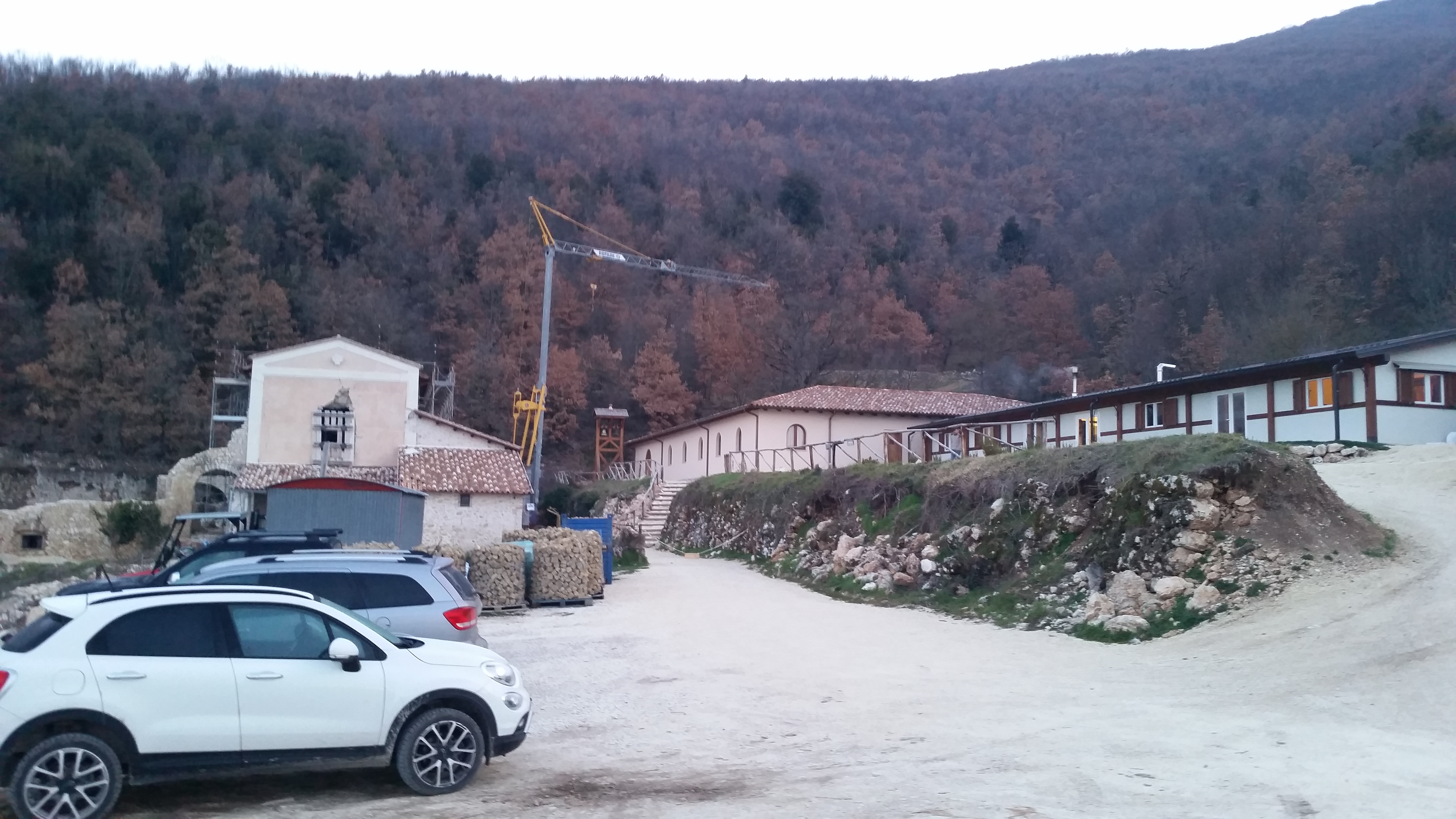 The new monastery of San Bendetto in Monte, Norcia, Italy, March 25 2018